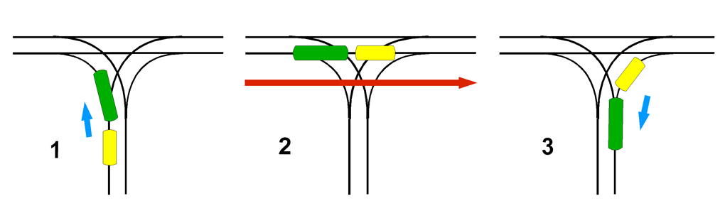 Schematic view, T-turn of trams